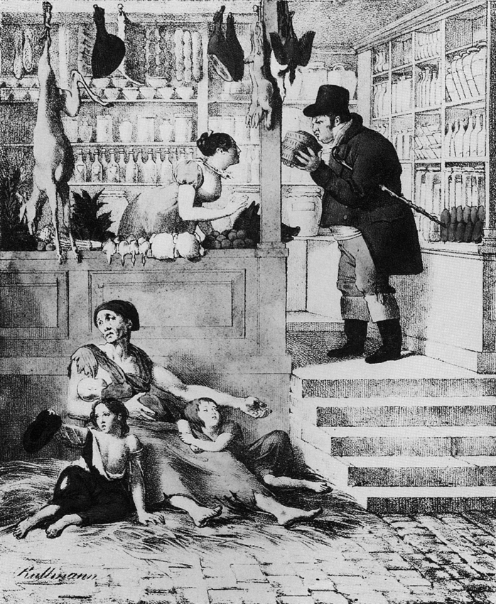 Les Contrastes, lithograph by the german painter Ludwig Rullmann (1765–1822) made between 1820 and 1822 in Paris, France.